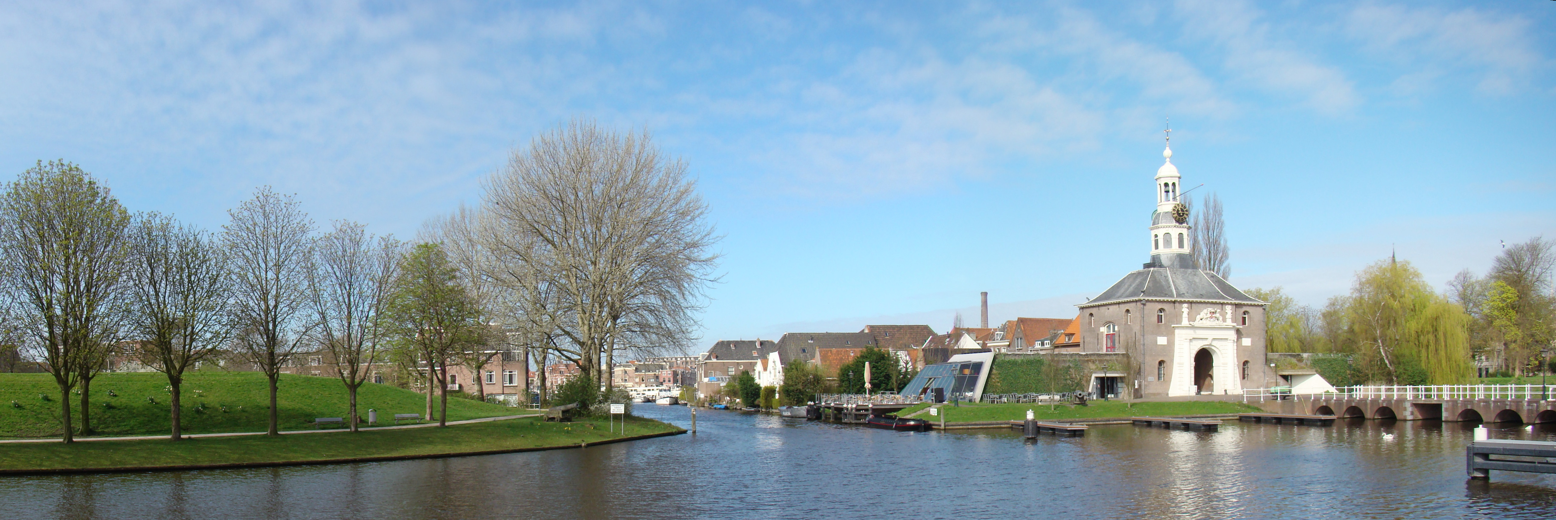 Panoramics of Leiden